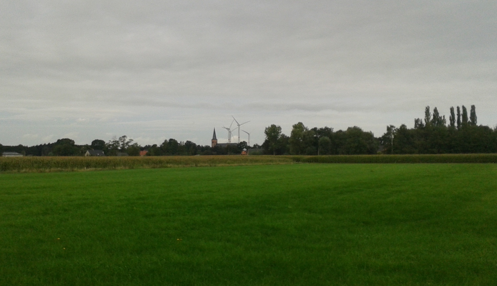 A view of Nieuwmoer, Belgium.